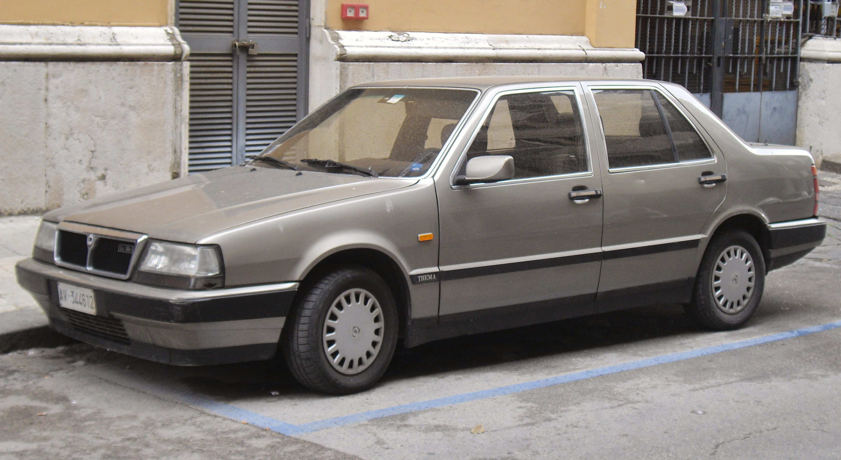 Lancia Thema i.e. 16V in Italy